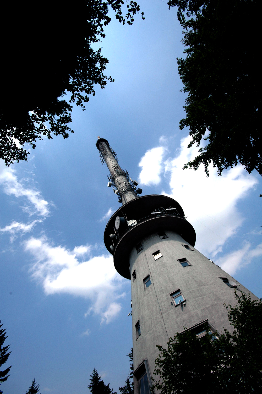 The telecommunications tower on Swiety Krzyz /Holy Cross/ mountain, Poland